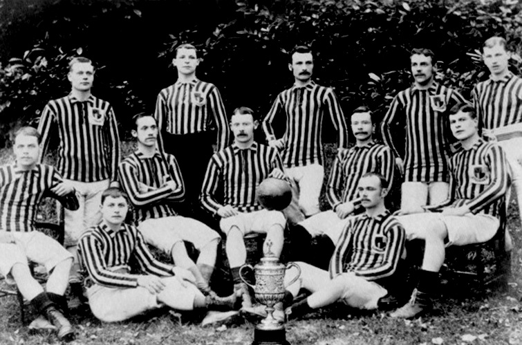 The Aston Villa players posing with the FA Cup won by the squad. They are: Frank Coulton, James Warner, Fred Dawson, Joe Simmonds, Albert Allen; Richmond Davis, Albert Brown, Archie Hunter, Howard Vaughton, Dennis Hodgetts; Harry Yates, John Burton.